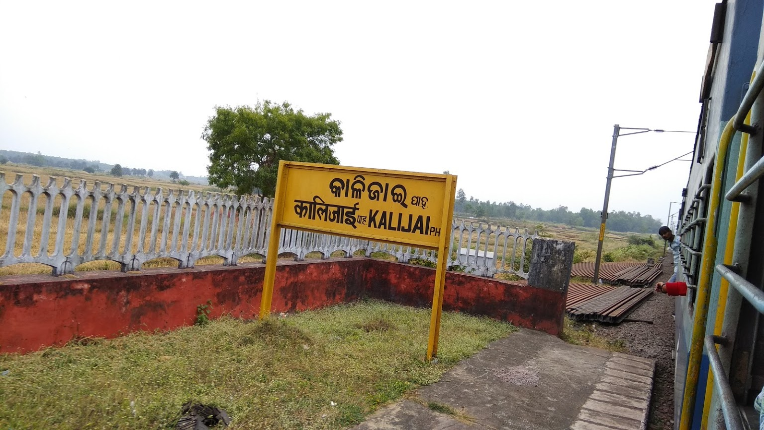 This is the Picture of Kalijai railway station